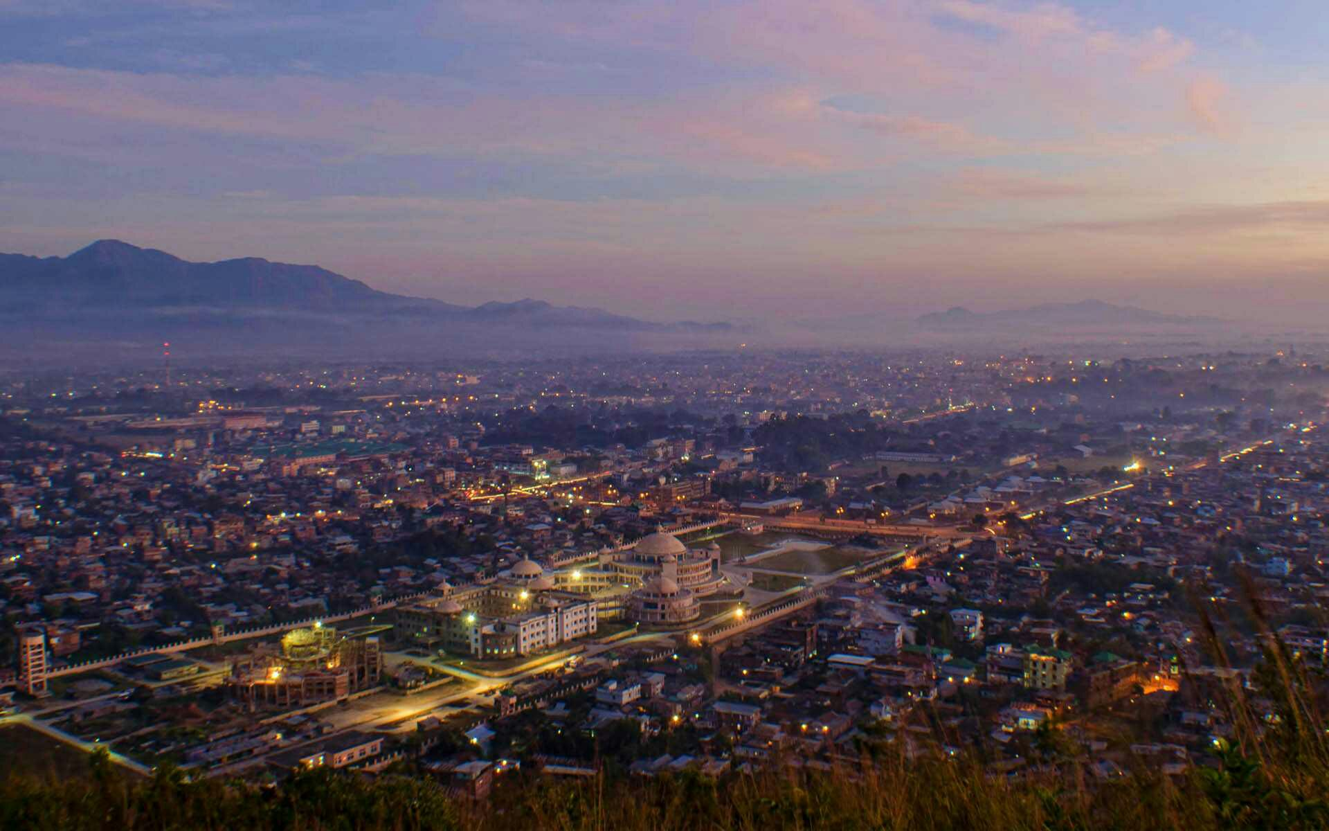 Landscape view for dusk(twilight)times at Imphal City